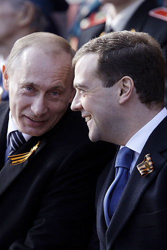 RED SQUARE, MOSCOW. At the military parade marking the sixty-third anniversary of Victory in the Great Patriotic War.